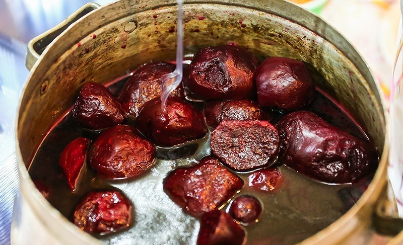 Laboo(cooked beetroot) in a copper pot.